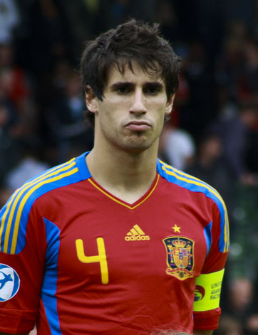 Javier Martinez, Spanish footballer at the 2011 UEFA European Under-21 Football Championship.